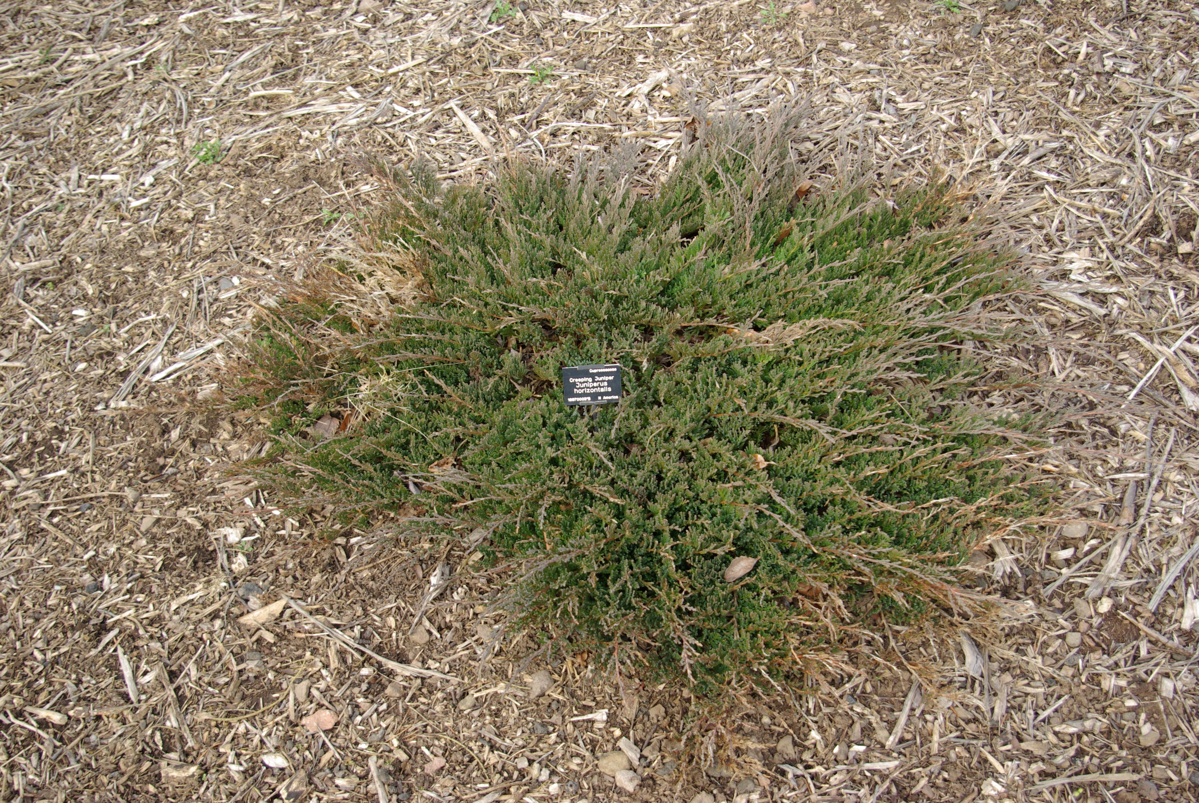 Juniperus horizontalis (also known as Creeping Juniper) (see also Juniperus horizontalis at Wikispecies)